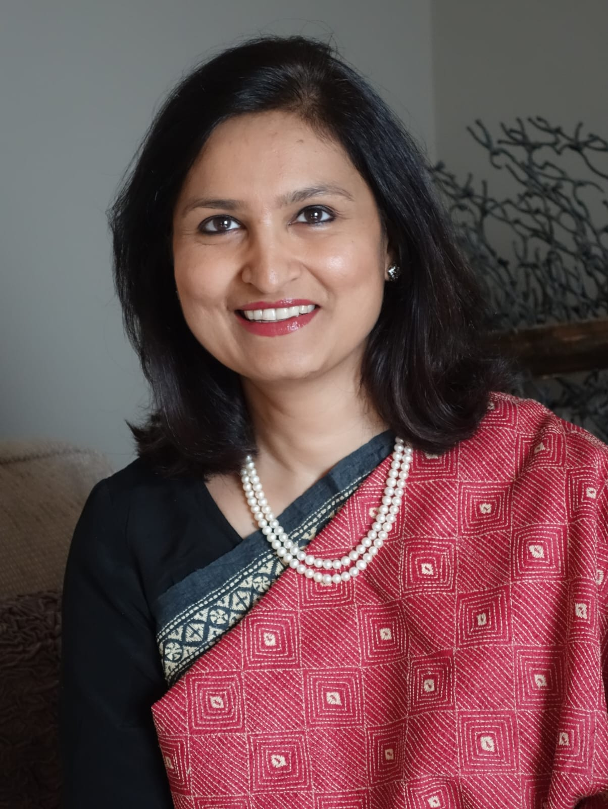 Headshot of Anjali Bansal